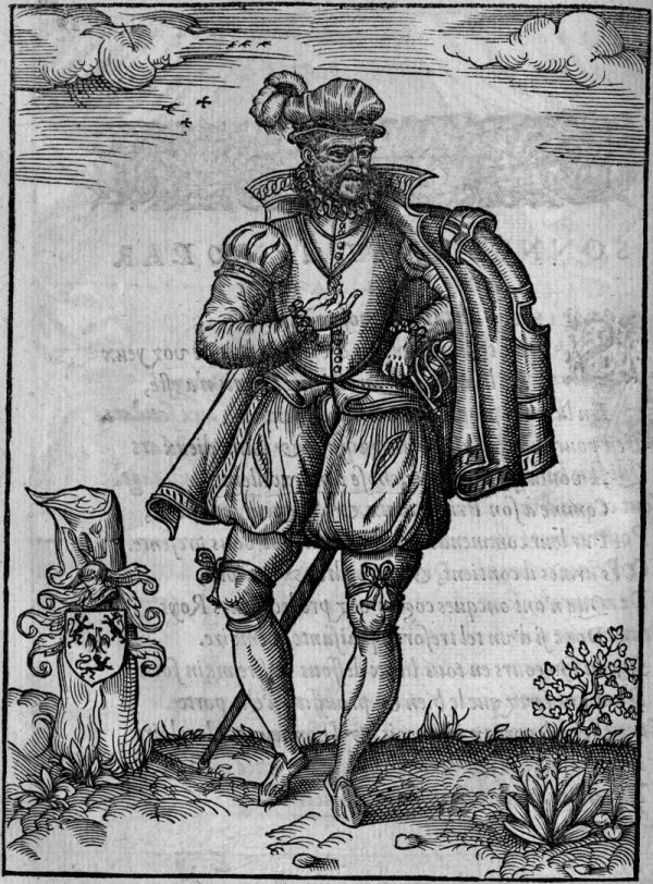 Portrait of Henry de Sainct-Didier